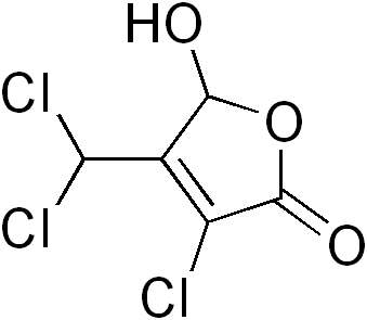 chemical structure of mutagen X